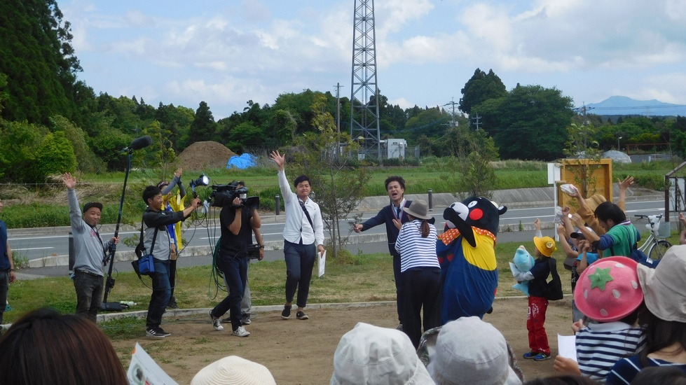 The Location of TV Program "Kataran-ne" (TKU TV Kumamoto) at Mashiki Town, Kumamoto, Japan